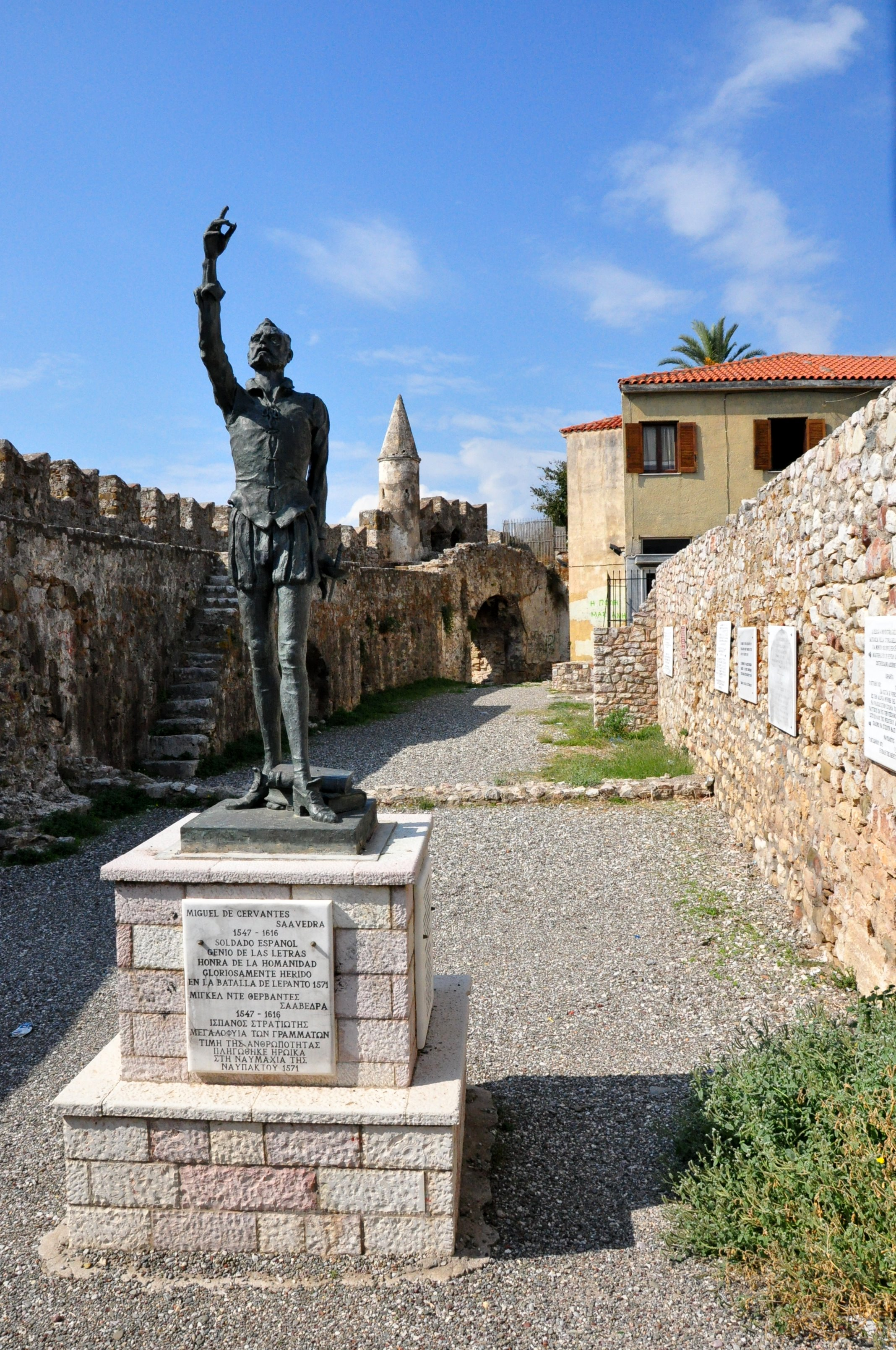 "The Cultural Park of Cervantes", a tiny part of the tiny port of Nafpaktos, Greece. Always beautiful and usually a quiet place.